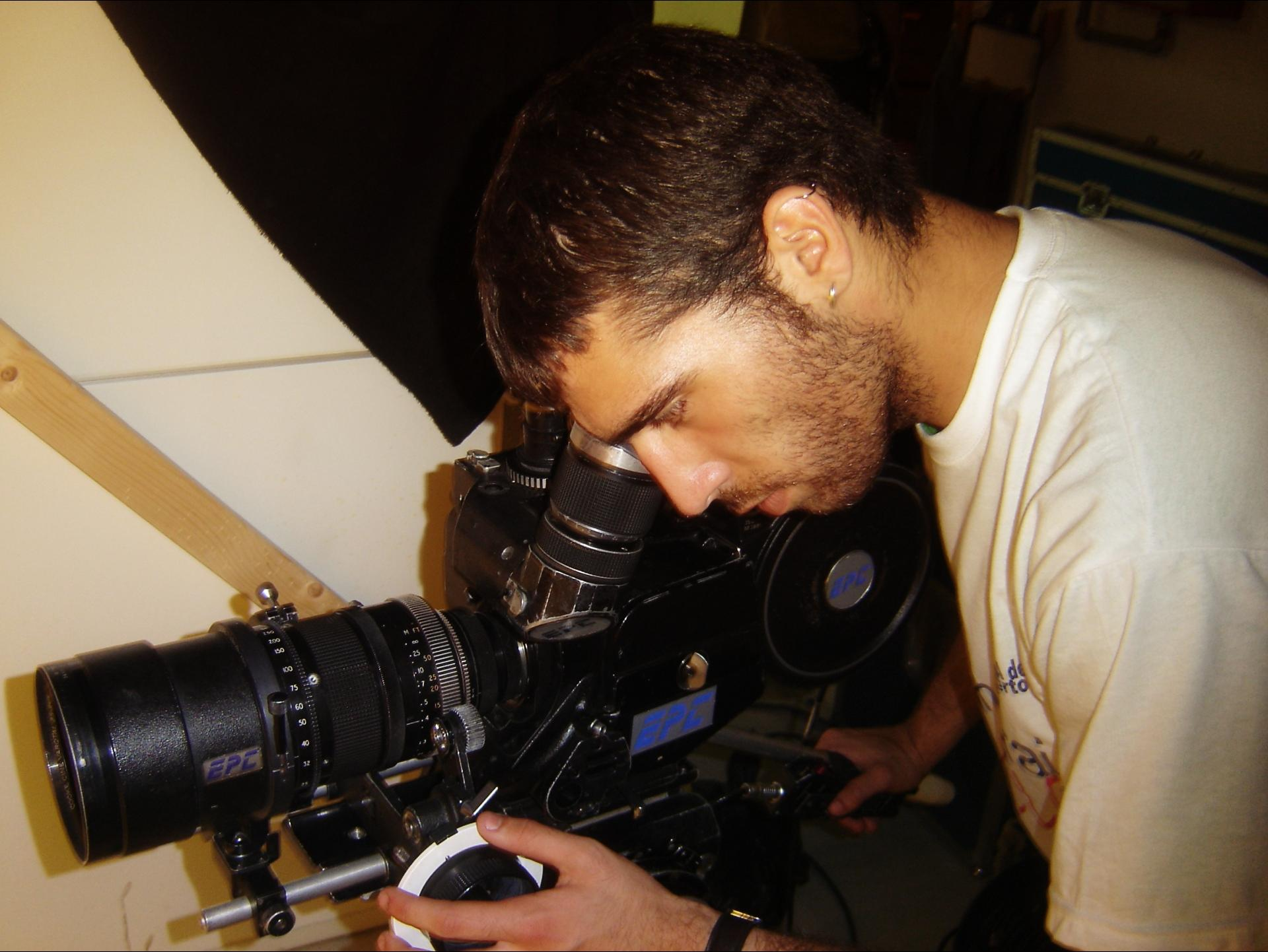 Abel Hidalgo Arri